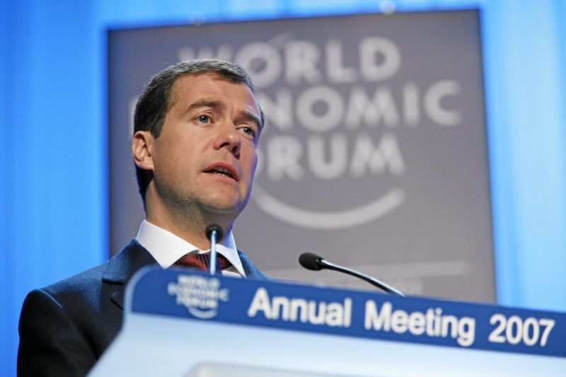 DAVOS/SWITZERLAND, 27JAN07 - Dmitry Medvedev , First Deputy Prime Minister of the Russian Federation addressing the Annual Meeting 2007 of the World Economic Forum in Davos, Switzerland, January 27, 2007. Copyright World Economic Forum